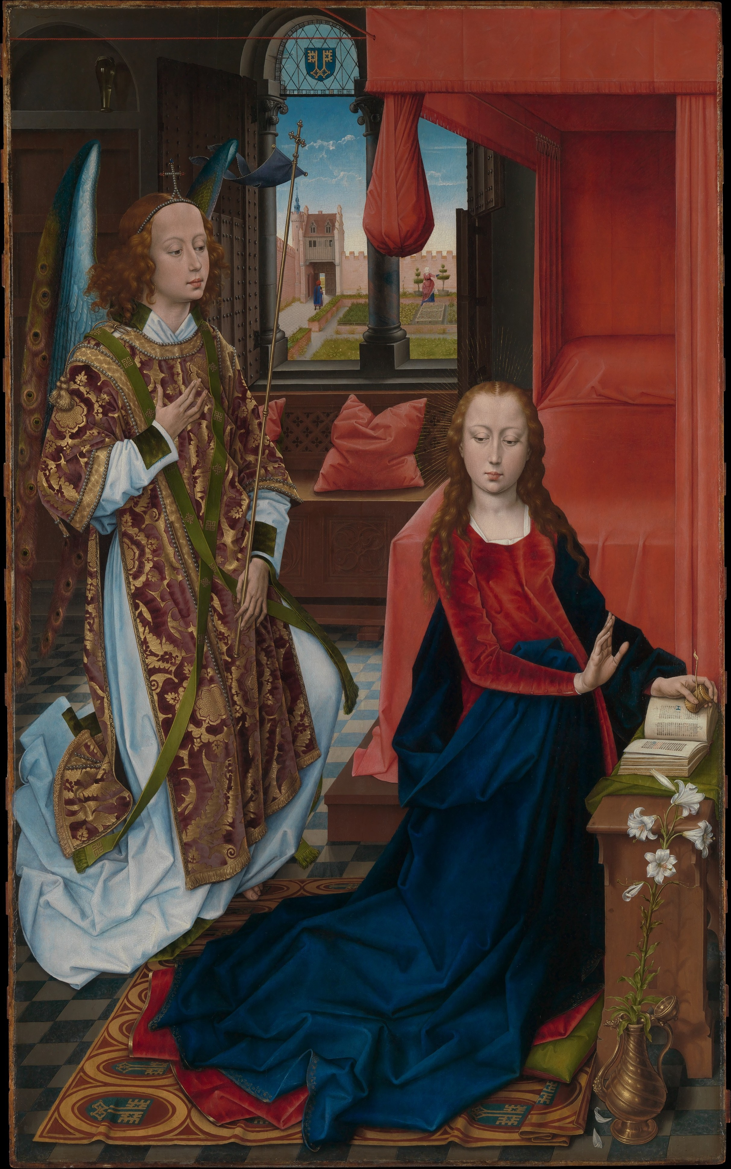 On a design by Rogier van der Weyden, probably commissioned by a member of the Clugny family, whose coat of arms—the two keys—decorates the carpet and stained-glass window.